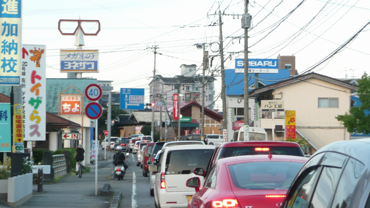 The Traffic congestion of National Route 269 (Kano, Kiyotake Town, Miyazaki City, Japan)